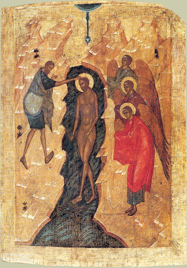 Baptism of Christ